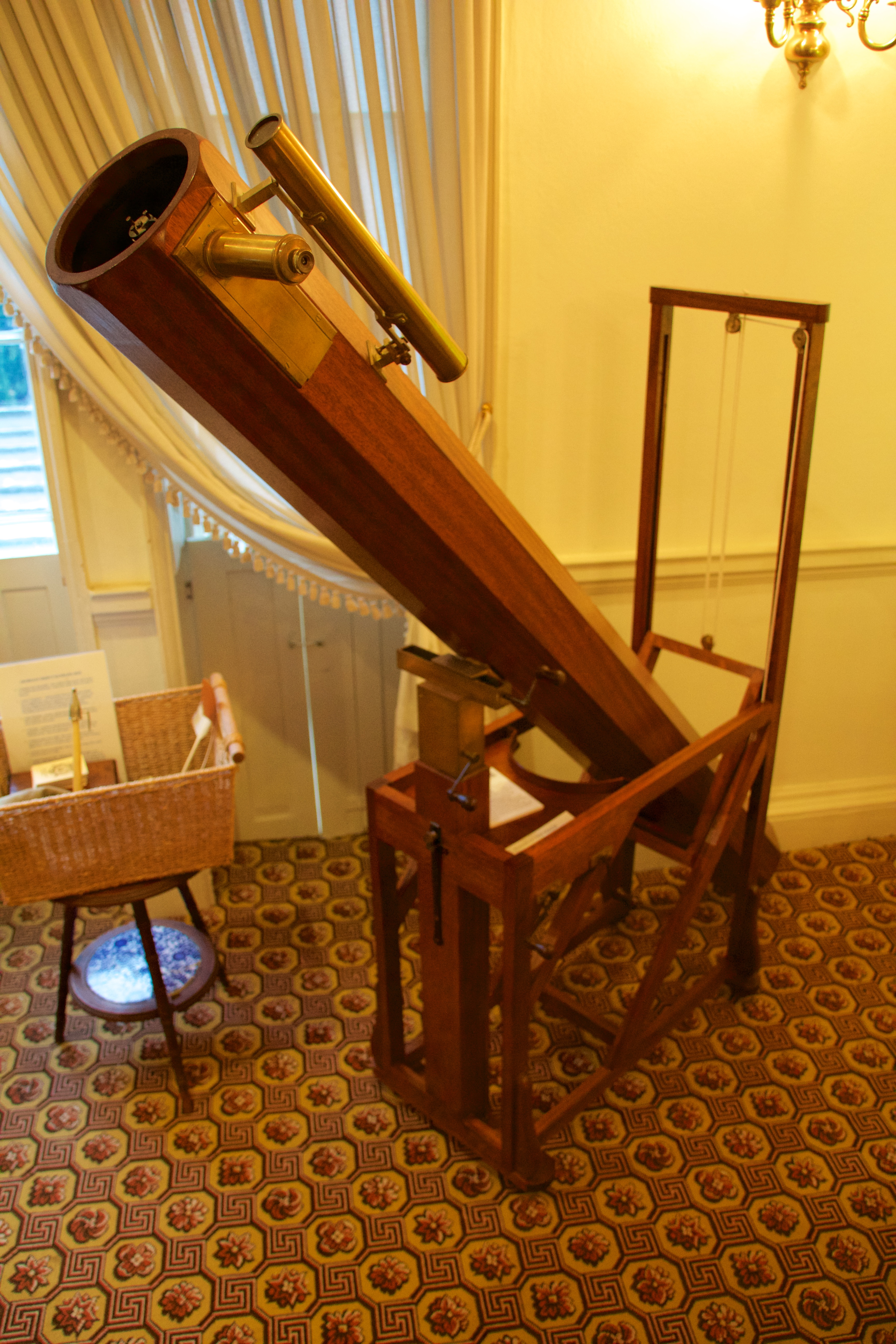 Replica telescope at the William Herschel Museum, Bath.